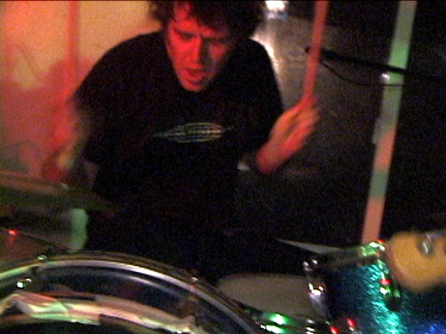 Pete Nolan of Magik Markers performing live at Death By Audio, Brooklyn on Oct 1 2007. Video still from PUNKCAST#1206 Credit: punkcast